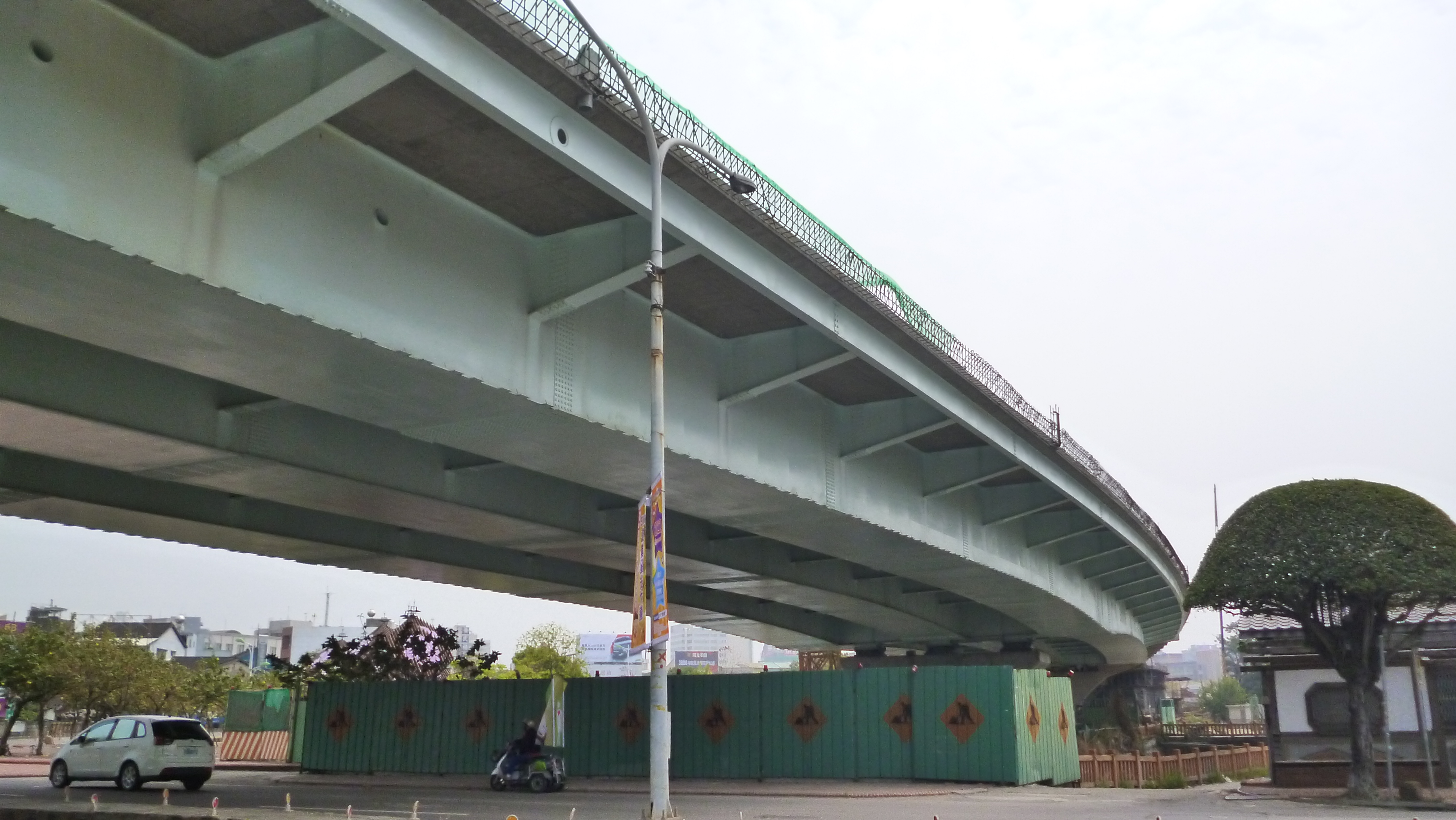 Gong Dao Yi-07